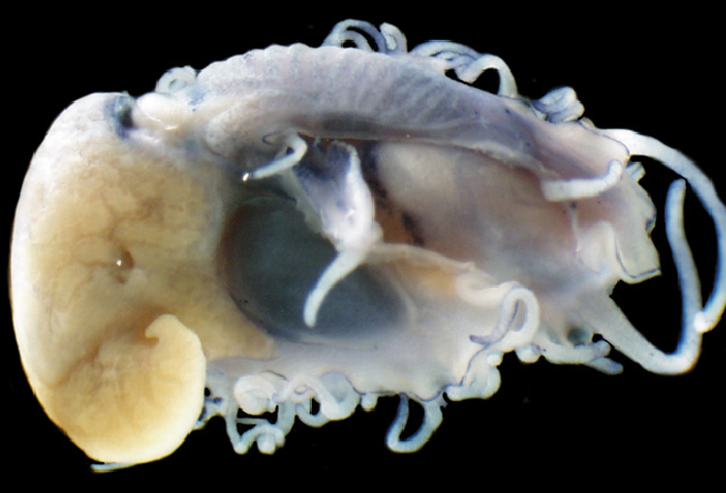 A photo of anatomy of juvenile 5 mm long Haliotis asinina with the shell removed.